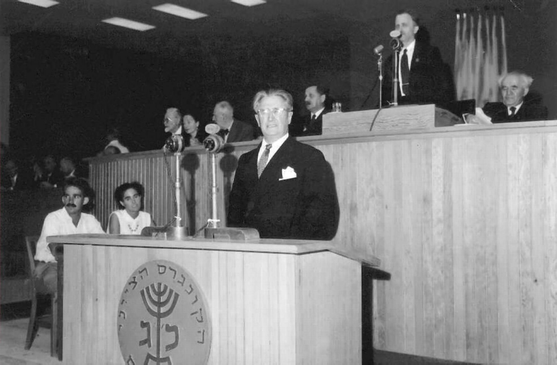 Nachum Goldman, Chairman of HaHanhala HaZionit Executive Council in the United States, at the 23rd Zionist Congress in Jerusalem. Sitting behind the speaker (from right to left) are: David Ben Gurion, B. Luker, I. Shprinzak, I. Shalit, Rose Halperin and Klozner.